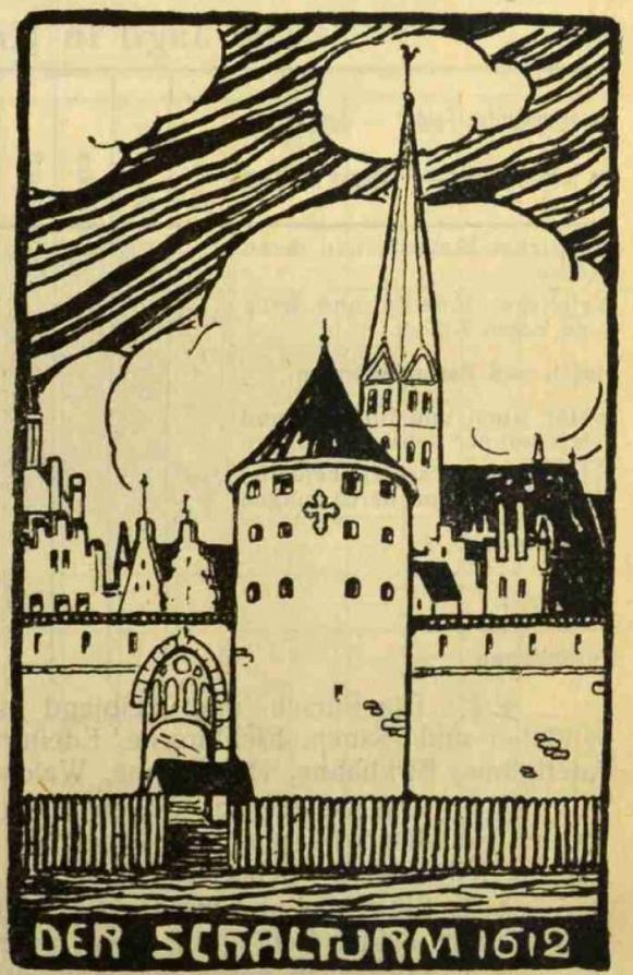 1907 Baltisches Jahrbuch; Picture of "Schalturm" Riga